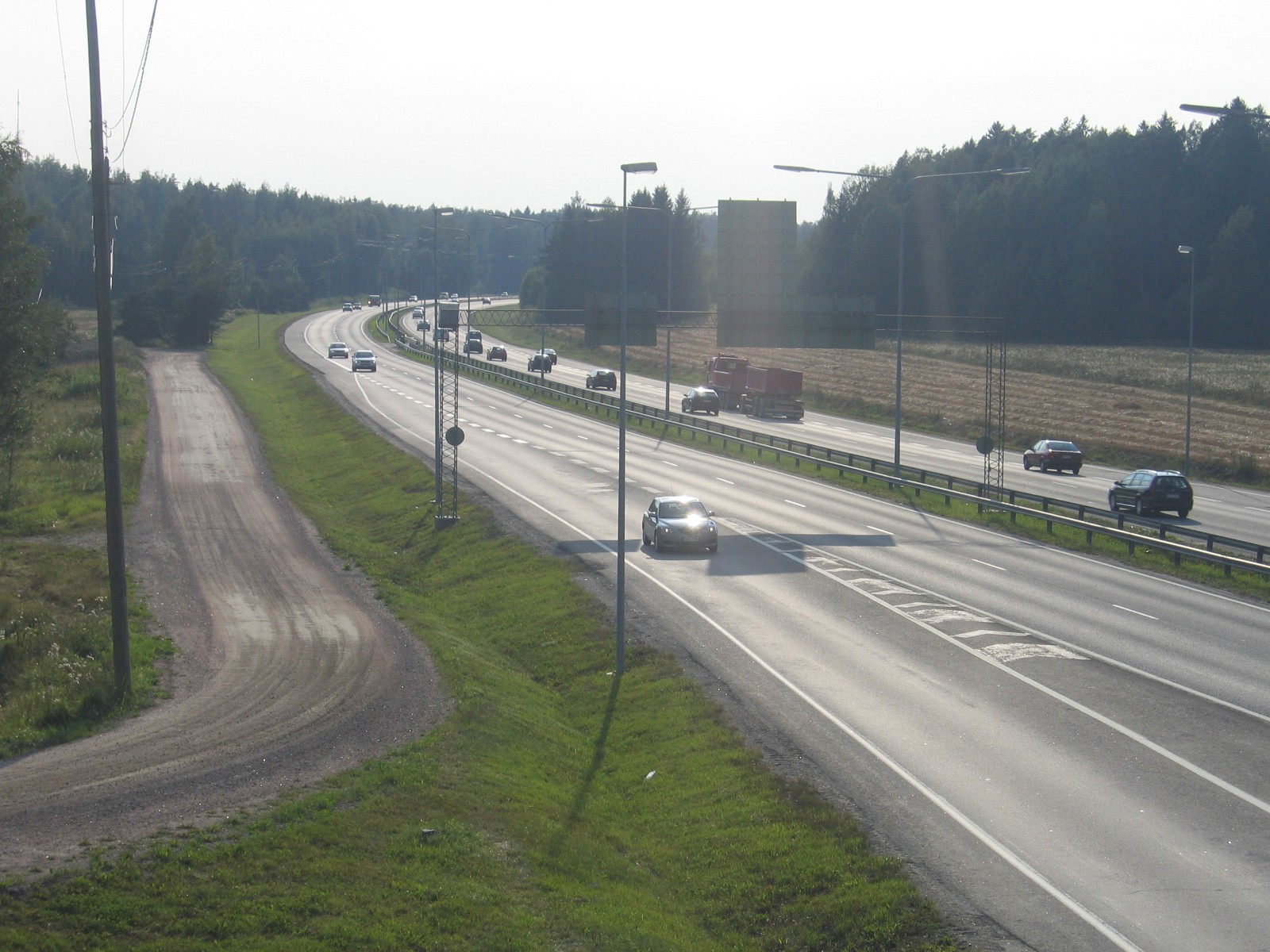 Turunväylä motorway (national road 1) westwards near Ring Road II's junction in Espoo, Finland.